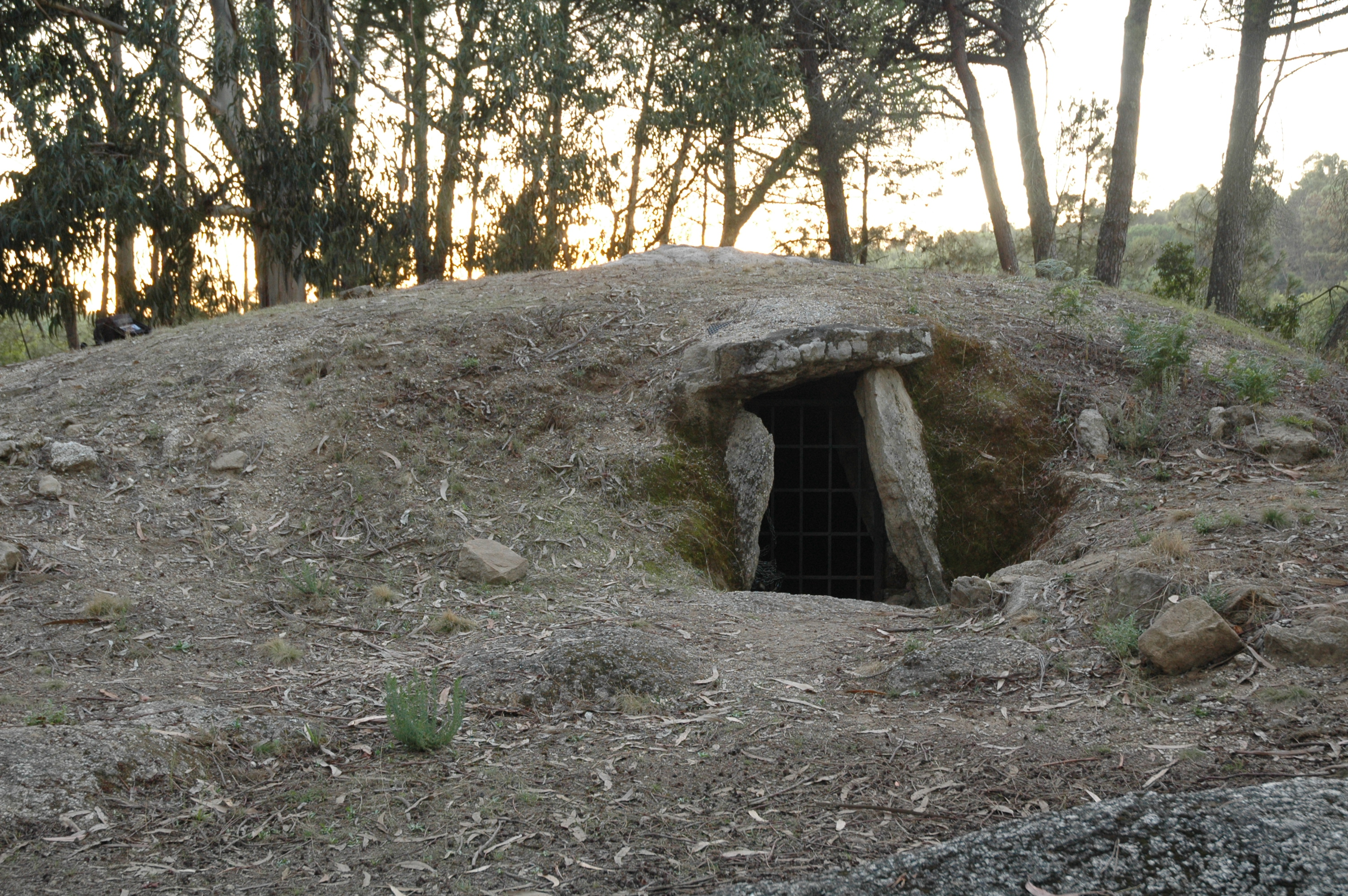 This file was uploaded for Wiki Loves Monuments in Portugal with the unique identifier 74043.